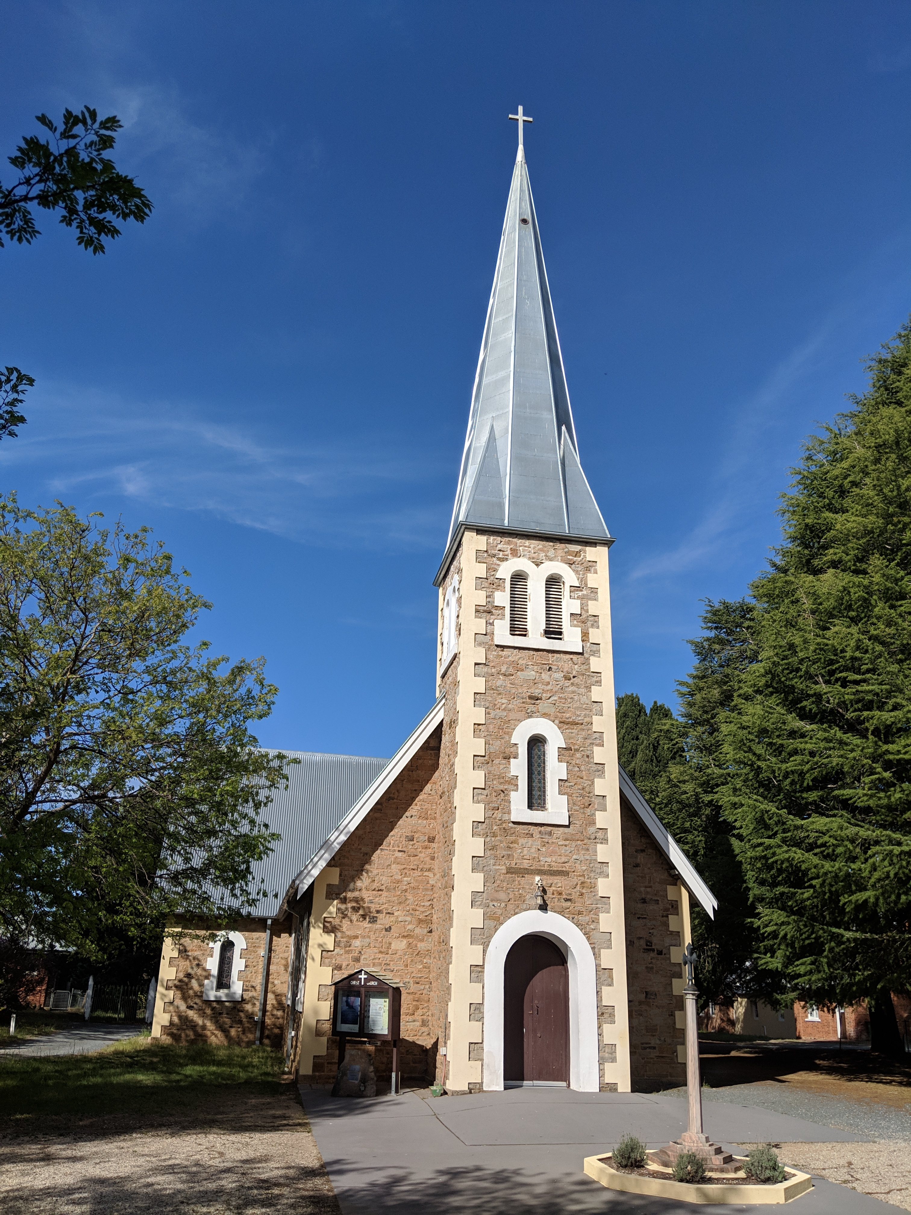 Christ Church, Queanbeyan, back